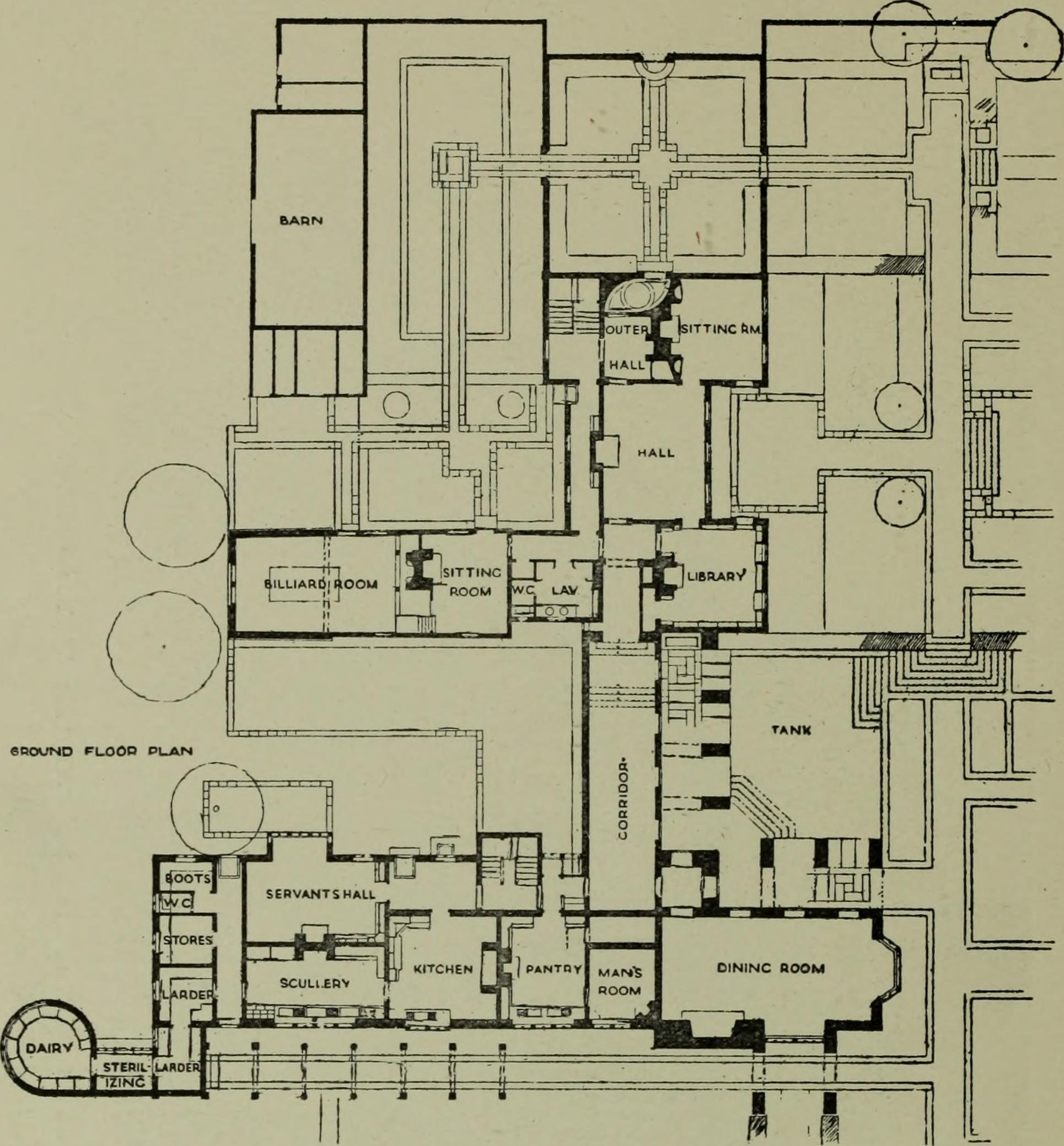 Illustration of Folly Farm, Sulhamstead, Berkshire in "Lutyens houses and gardens" (1921).